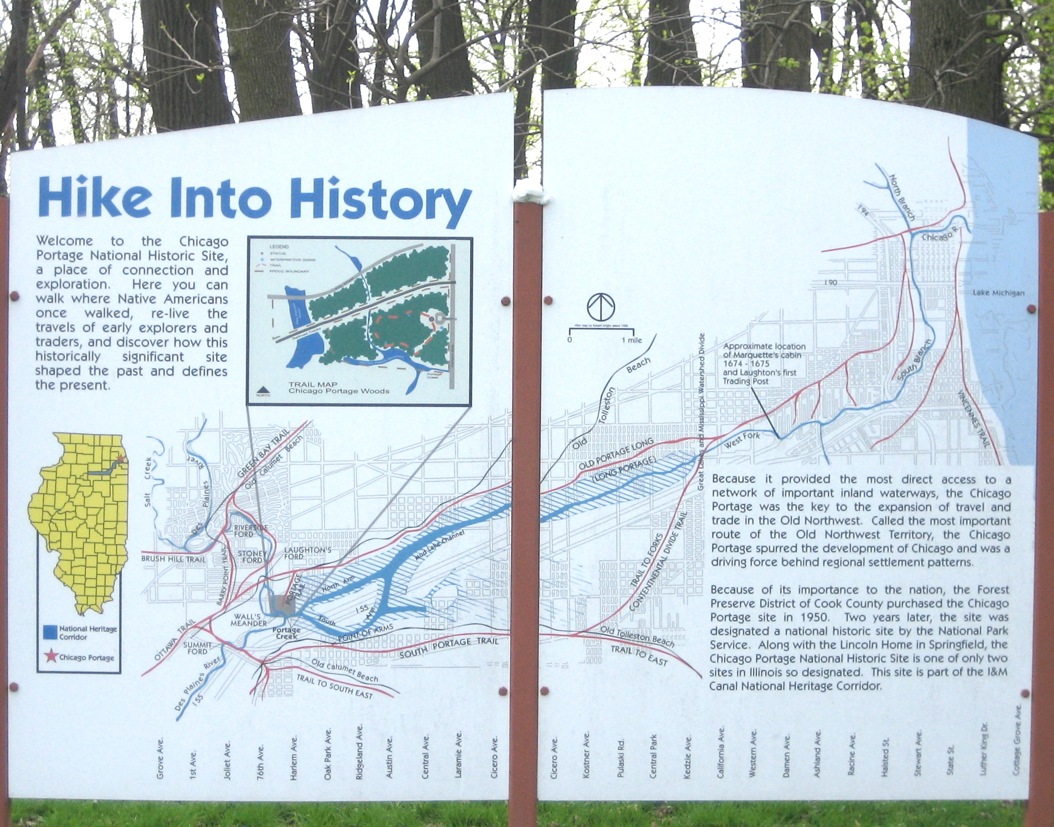 Sign at Chicago Portage National Historic Site describing portage with detailed map